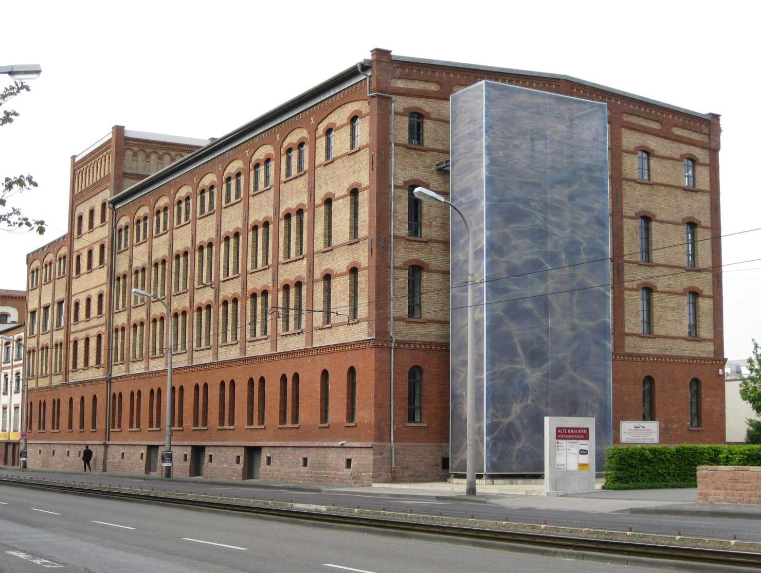 Old Brevery in Mannheim/Germany